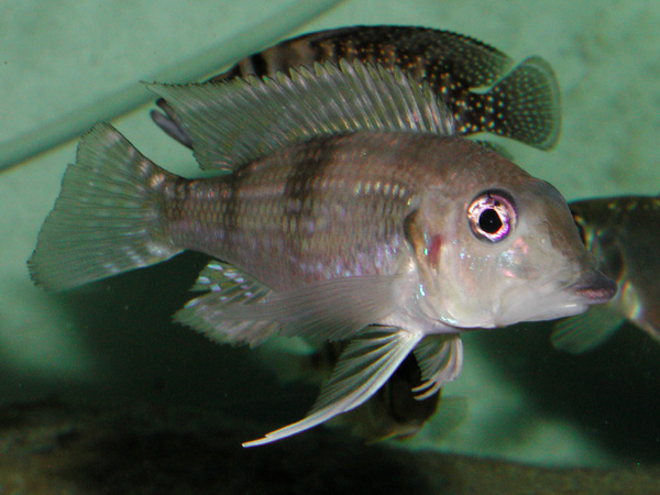 Gnathochromis premaxillaris Photo: Dr. Jessica Drake Permission given for CC ShareAlike 2.5